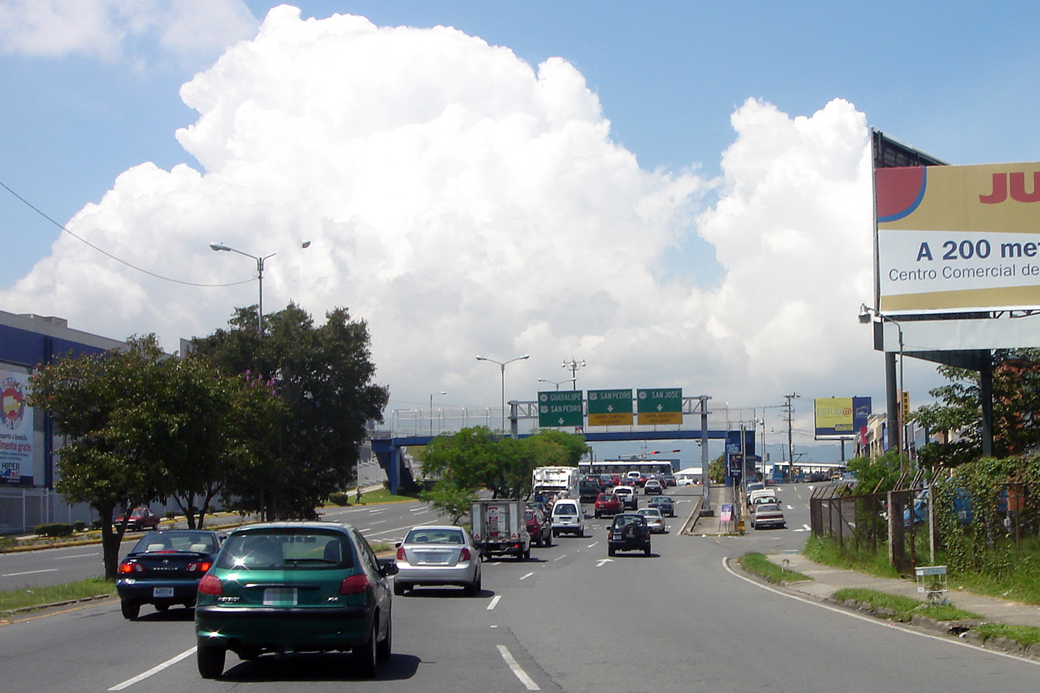 Route 39 - San Jose Beltway, Costa Rica